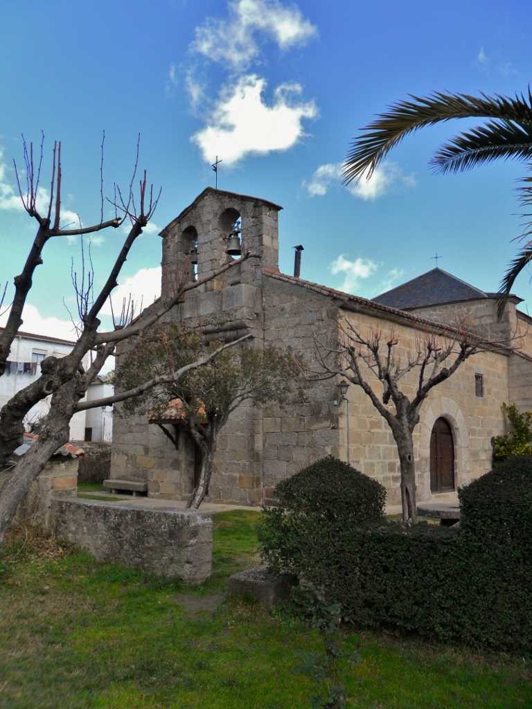 Church in Ramacastañas (Arenas de San Pedro municipality, Ávila, Spain).